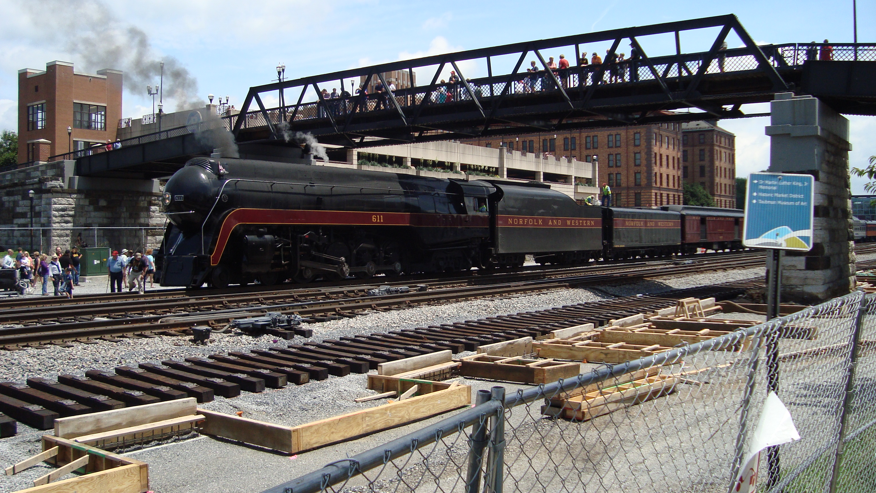 Waiting to depart for Walton.